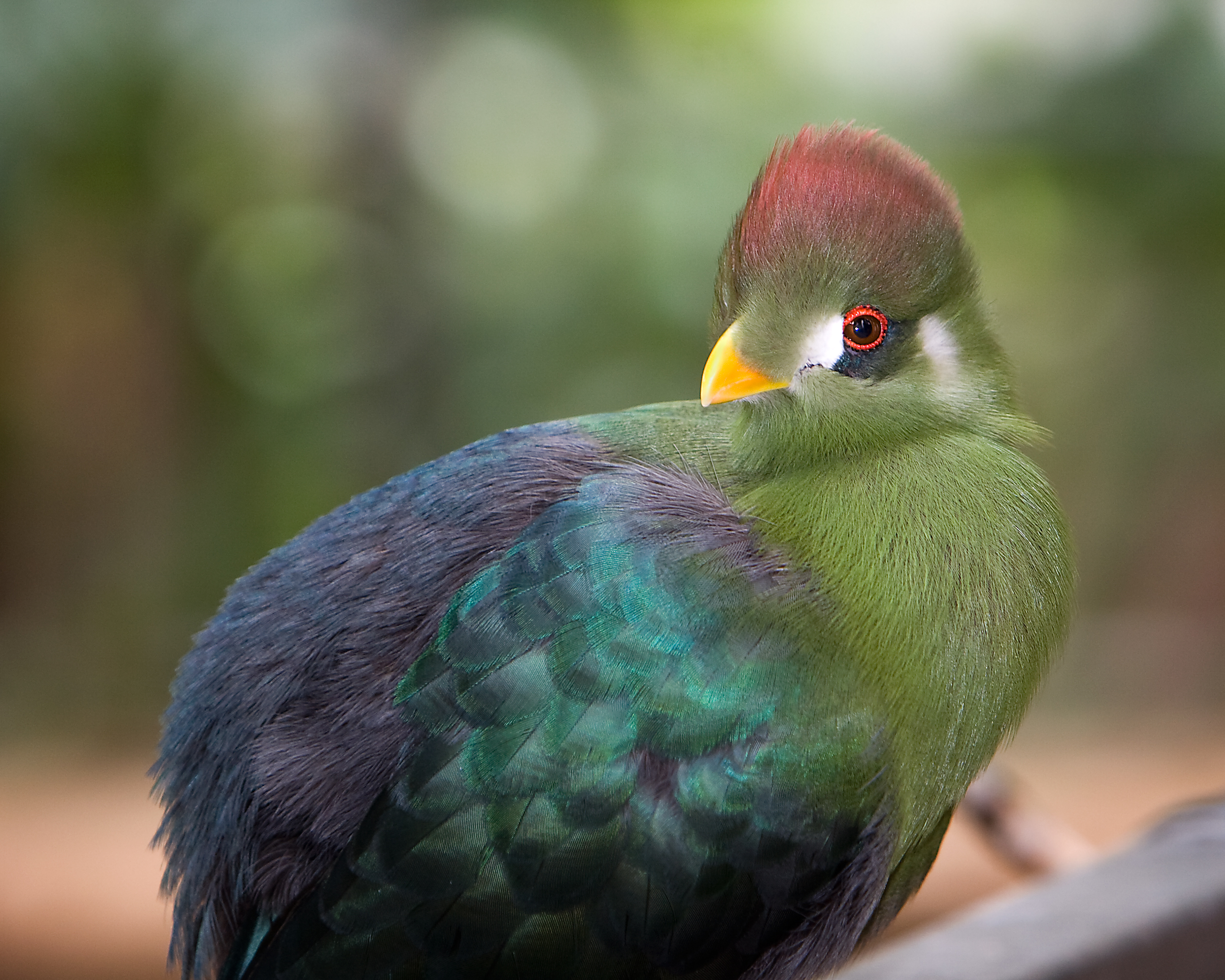 A hybrid tauraco at Bird Kingdom, Niagara Falls, Canada.